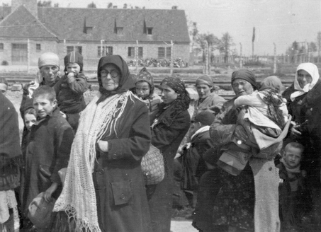 Birkenau, Poland, Jewish women and children in front of Crematorium III on their way to Crematorium II, 05/1944. Photographs documenting the arrival process of Hungarian Jews from the Tet Ghetto in Auschwitz-Birkenau extermination camp during the second half of 1944. Those pictured include Iboja Hoffman of Bodrogkeresztur, her aunt Lena Egri, Ruth Hoffman (Iboja's sister), Malwin Hoffman (Iboja and Ruth's mother), Piroska Szaz of Tokaj (Lena and Malwin's sister), Piroska's daughter and Karcsi Szaz (Piroska's son).[1]